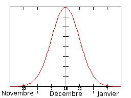 This diagram is depicting the number of birth according to the time during the breeding season in the subantarctic fur seal (Arctocephalus tropicalis) from the end of November to the start of January. On this diagram, you can see that the number of pup births follow a Gaussian distribution. The median date is matching with the middle of December. That means that the half of the births happen before the middle of December and the other half happen after this date. The median date is matching with the peak in the birthrate too. This diagram drew his inspiration from the figure 4 of the article from Georges, J.Y. and Guinet, C., « Early mortality and perinatal growth in the subantarctic fur seal (Arctocephalus tropicalis) on Amsterdam Island ». Journal of Zoology, London, 251, 277-287, 2000. The figure 4 of the Georges and Guinet's article is depicting the cumulative percentage of birth during the breeding season in 1996 and 1997 on Amsterdam island. In abscissa the dates are shown. The original figure isn't showing absolute informations but relative ones, that's why in the ordered (number of births), the unit isn't shown. This figure correspond to the picture Gauss_reduite.png from modified according to the article aforesaid.